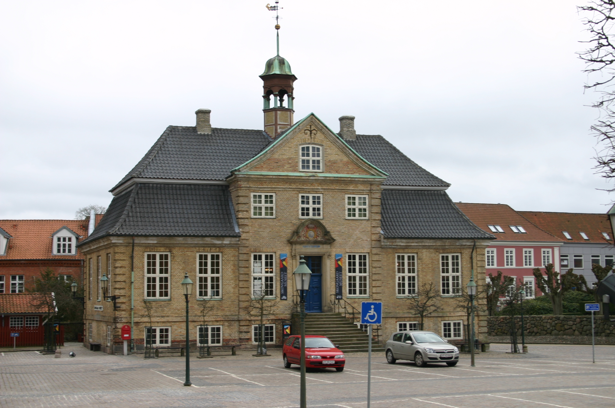 The old Town Hall in Viborg, Denmark